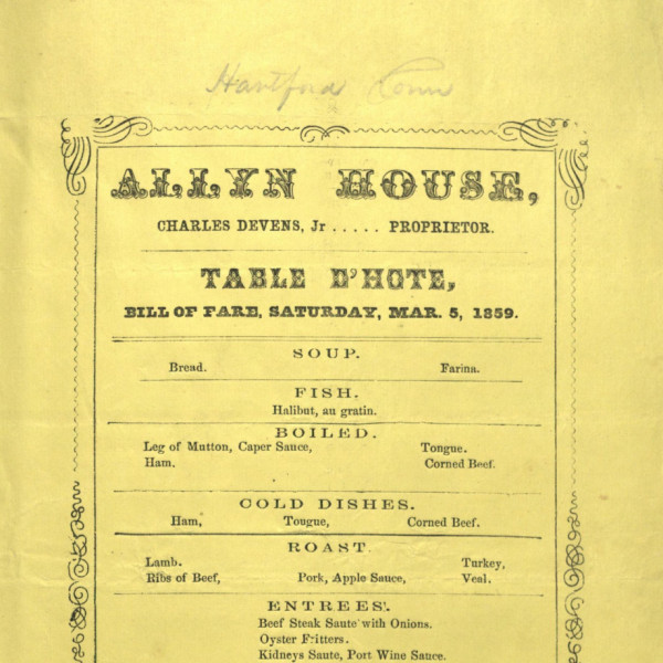 Menus from hotels, restaurants, and steamboats in the 1850s and 60s. The name CHARLES DEVENS, Jr, Proprietor, is prominently displayed at the top of this menu.